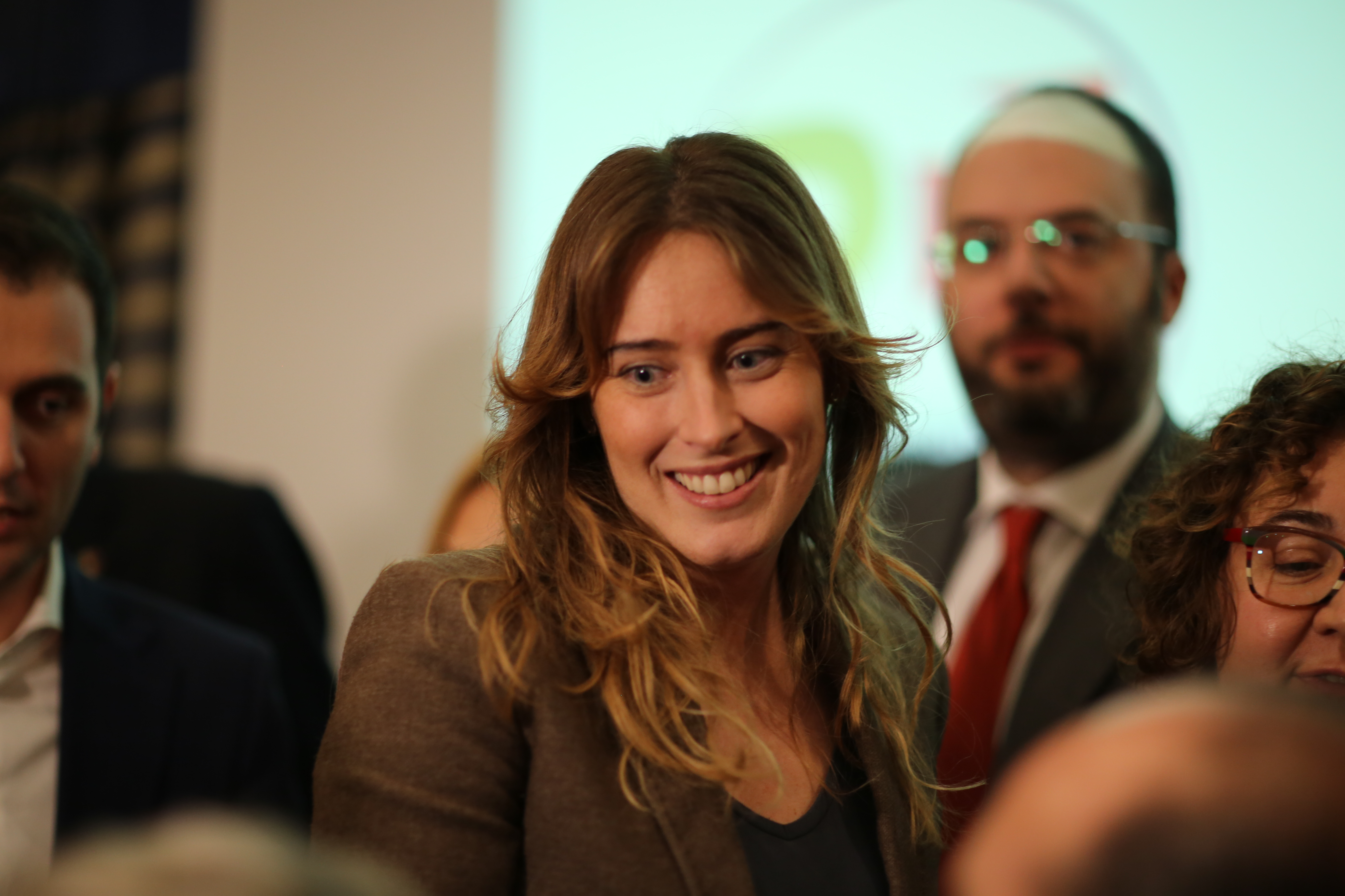 Maria Elena Boschi in Bologna, 2016